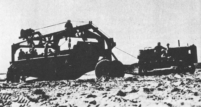 The Jeheemy, a piece of salvage equipment used in rescuing swamped or stranded boats during an amphibious landing, and used during World War II. It consisted of a portable crane hauled along the beach by a tractor, and was invented by Commodore Byron McCandless. See also [1]